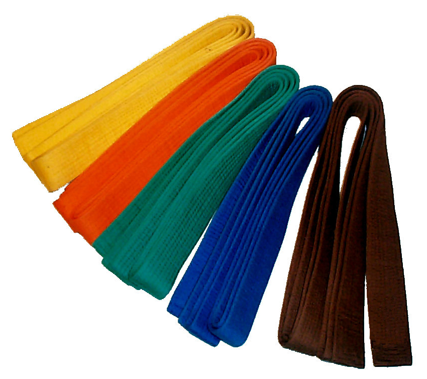 Budō belts (obi) in the colours of Gokyū (five student grades); (Kyu, Judo belt, Obi, Budo belt, etc.)